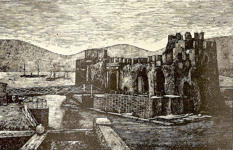 Castle of Evripos, Chalkis, Evia (destroyed in 1890)